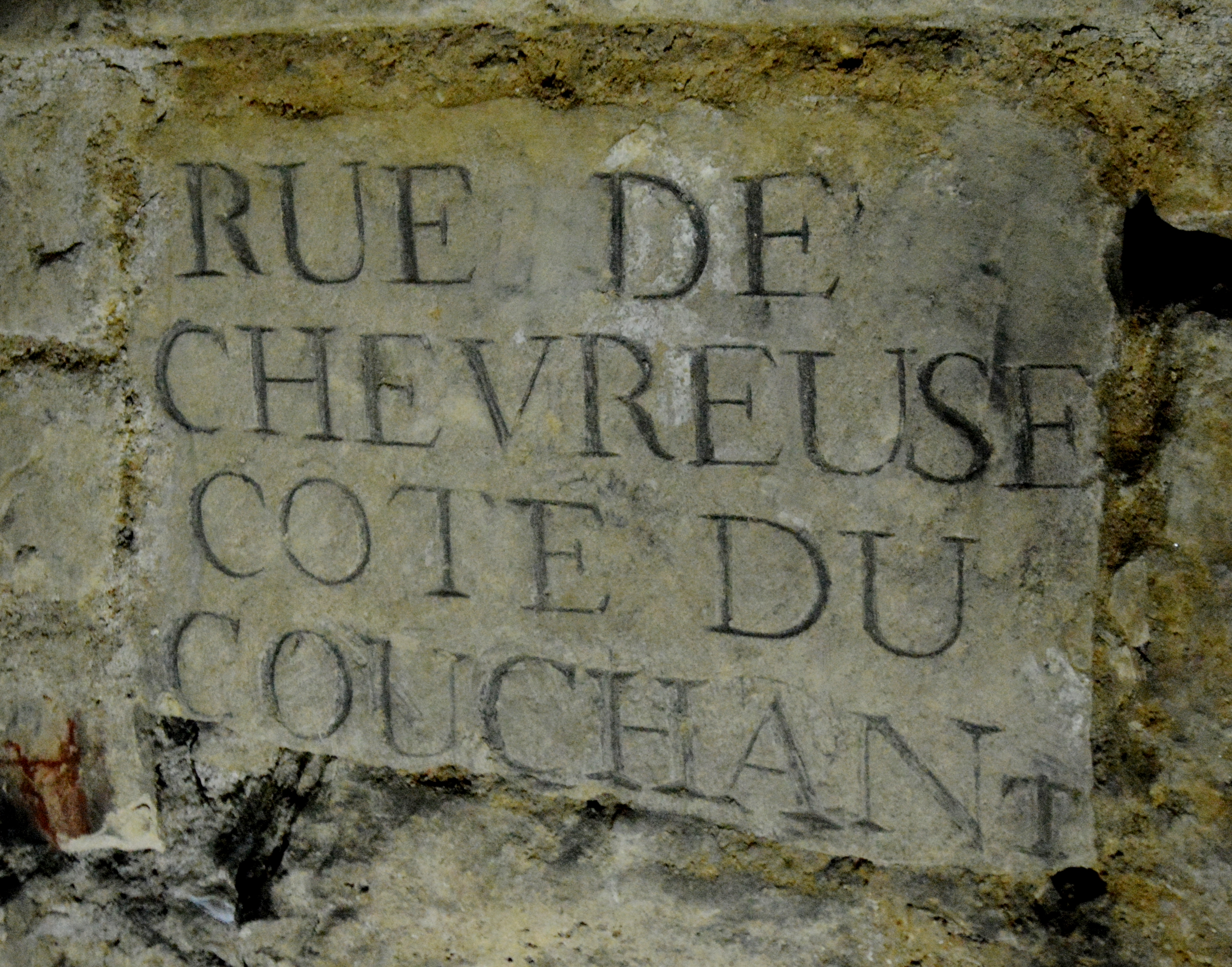 Street sign of rue de Chevreuse (Paris) in quarries